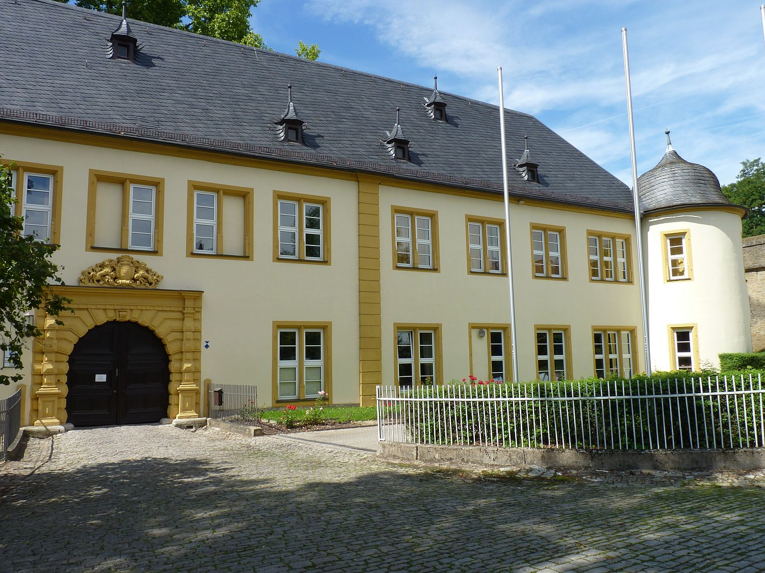 Castle of Gaibach, Volkach-Gaibach, Lower Franconia, Bavaria, Germany